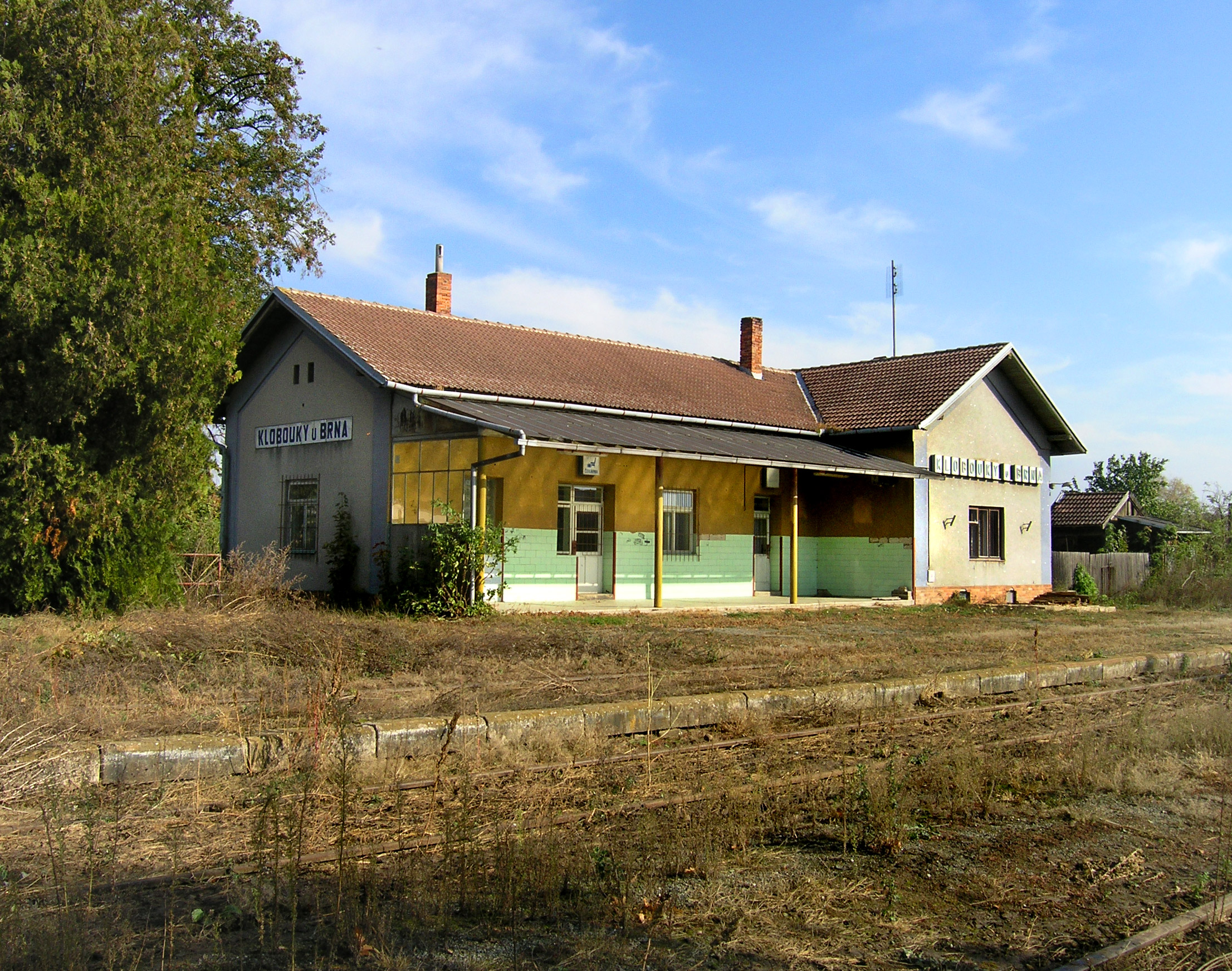 Old railway station in Klobouky u Brna, Czech Republic